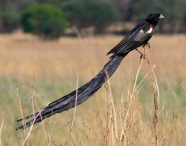 Male Long-tailed Widowbird